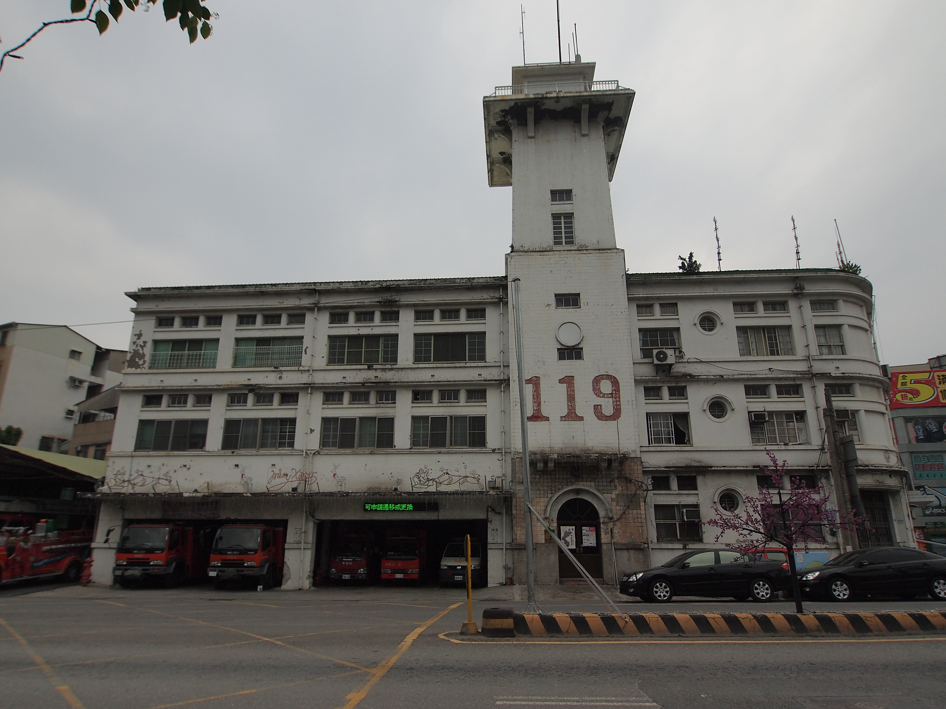 消防局老建筑 - Old Style Fire Station - 2012.02